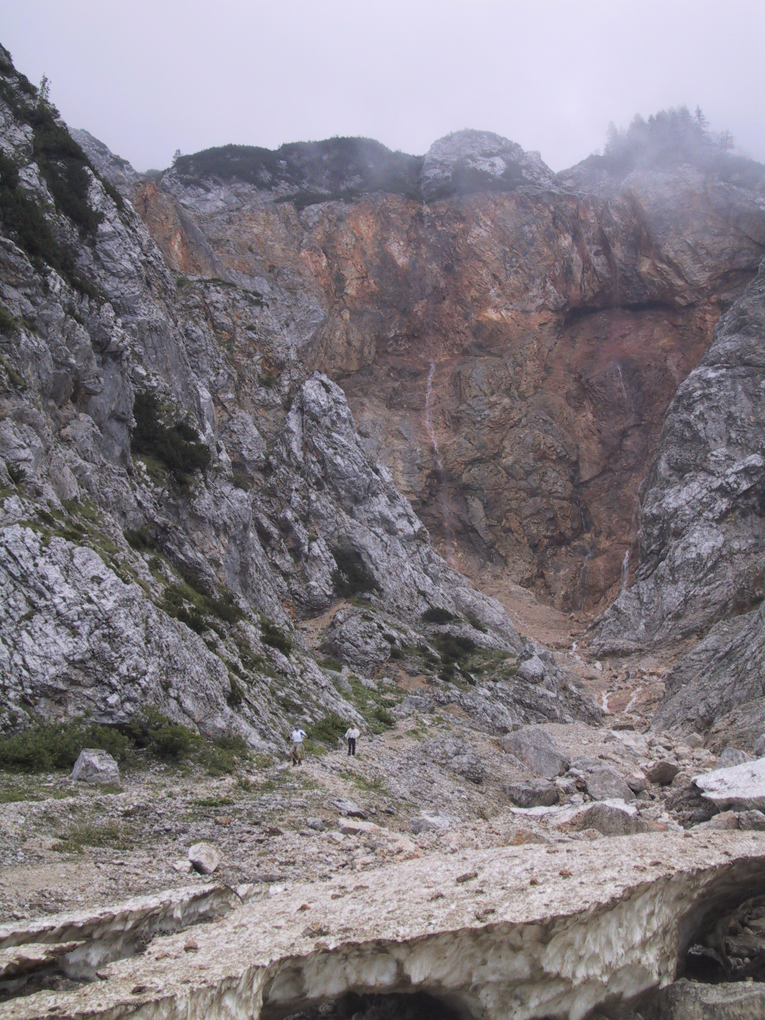 Čedca waterfall before rockfall of the year 2008, Jezersko